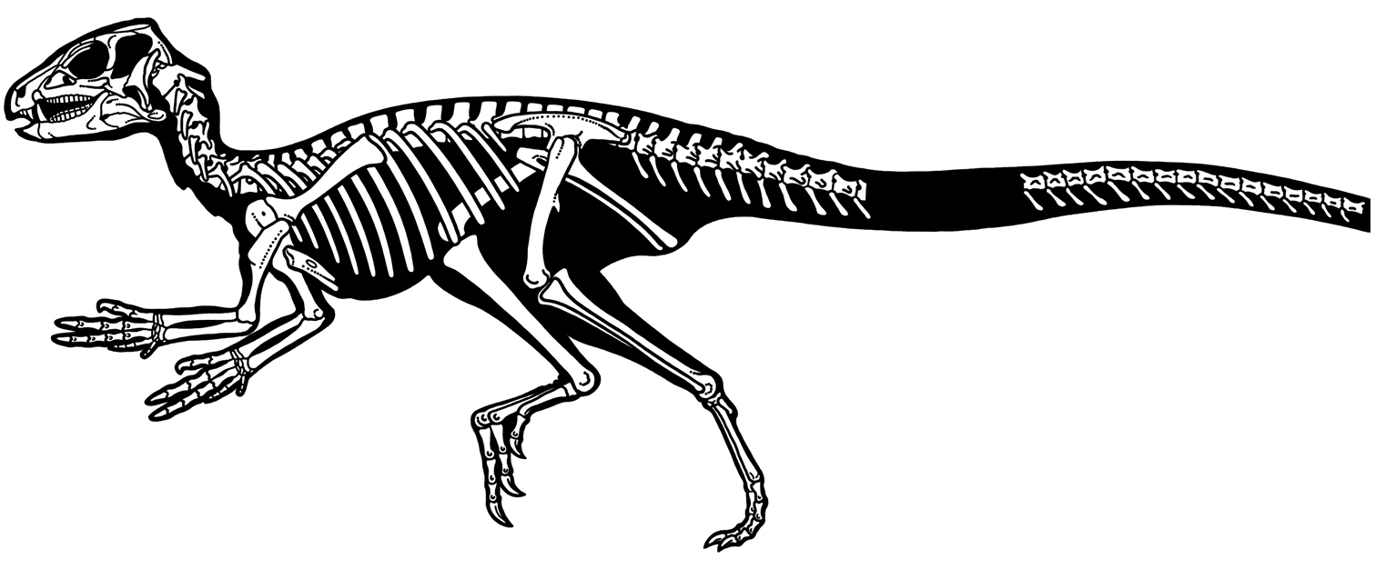 Skeleton of Heterodontosaurus tucki from the Lower Jurassic Upper Elliot and Clarens formations of South Africa. Silhouette skeletal reconstruction in lateral view showing preserved bones (based on SAM-PK-K1332). Distal most caudal vertebrae unknown.